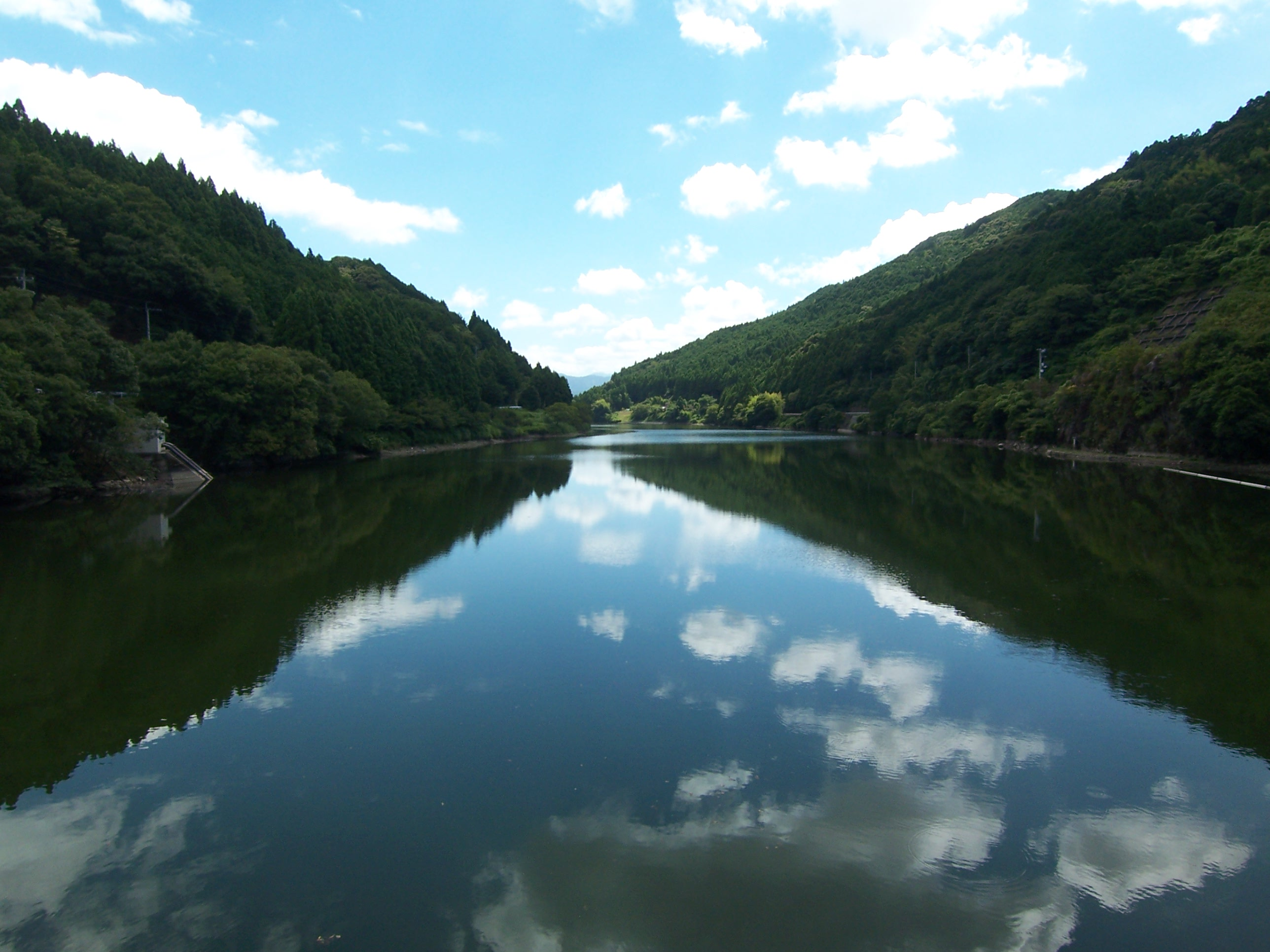 Hiranabe dam resevoir, Nahari river, Kochi Prefecture, Japan